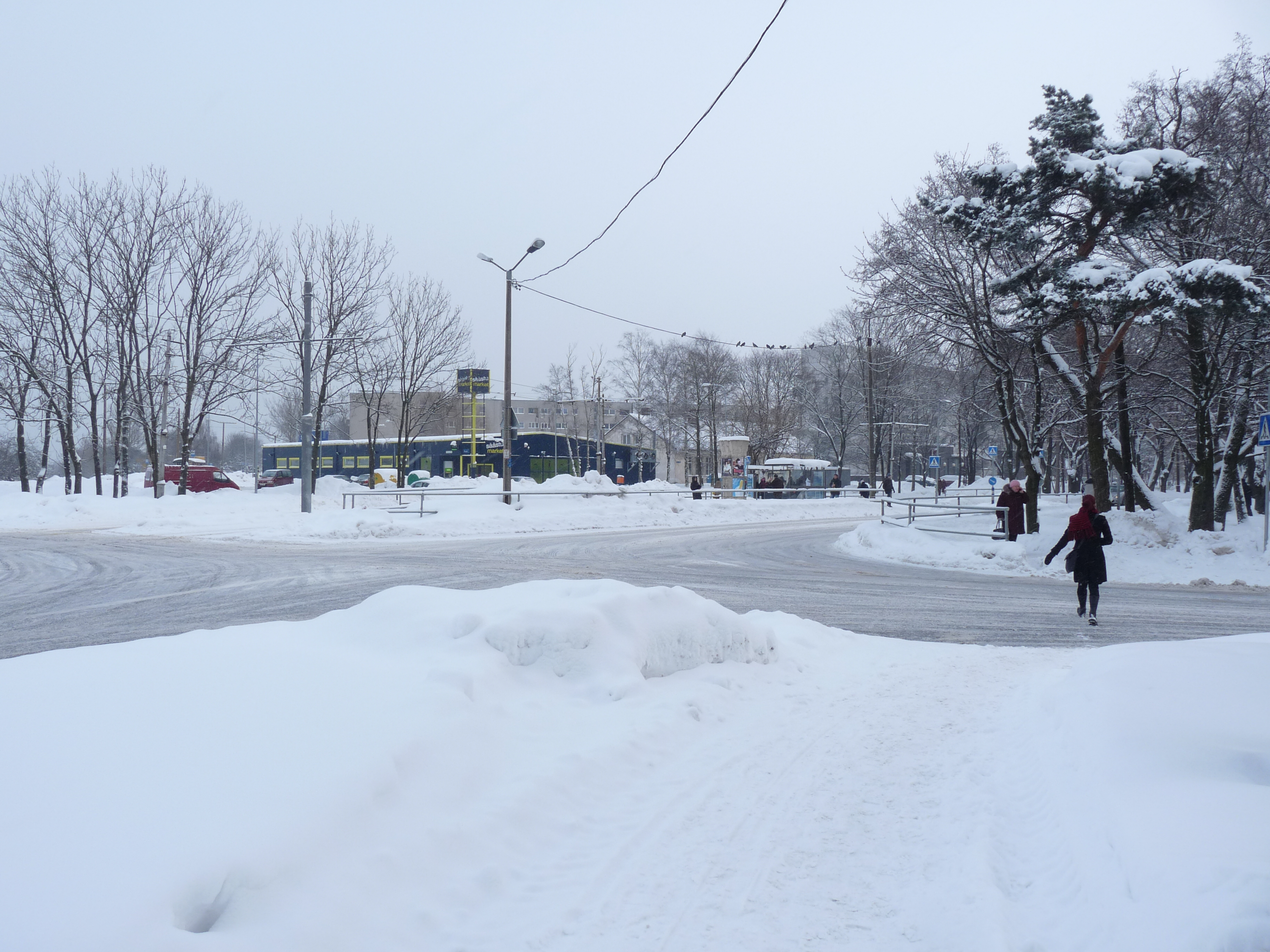 Intersection of Kopli, Siti, Tööstuse and Paljassaare streets